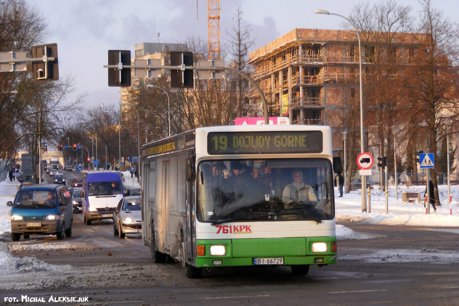 MAN NL 202 bus (#761) in Białystok, Poland. Built 1993. KPK Białystok operator.